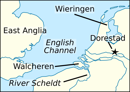 Map illustrating the bonds of the Frisian fiefdom of Roricus. The domain appears to have encompassed the regions surrounding Dorestad, Walcheren, and Wieringen.